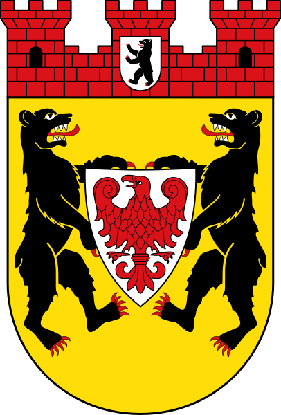 Coat of arms of Mitte, a former boroughs of Berlin.